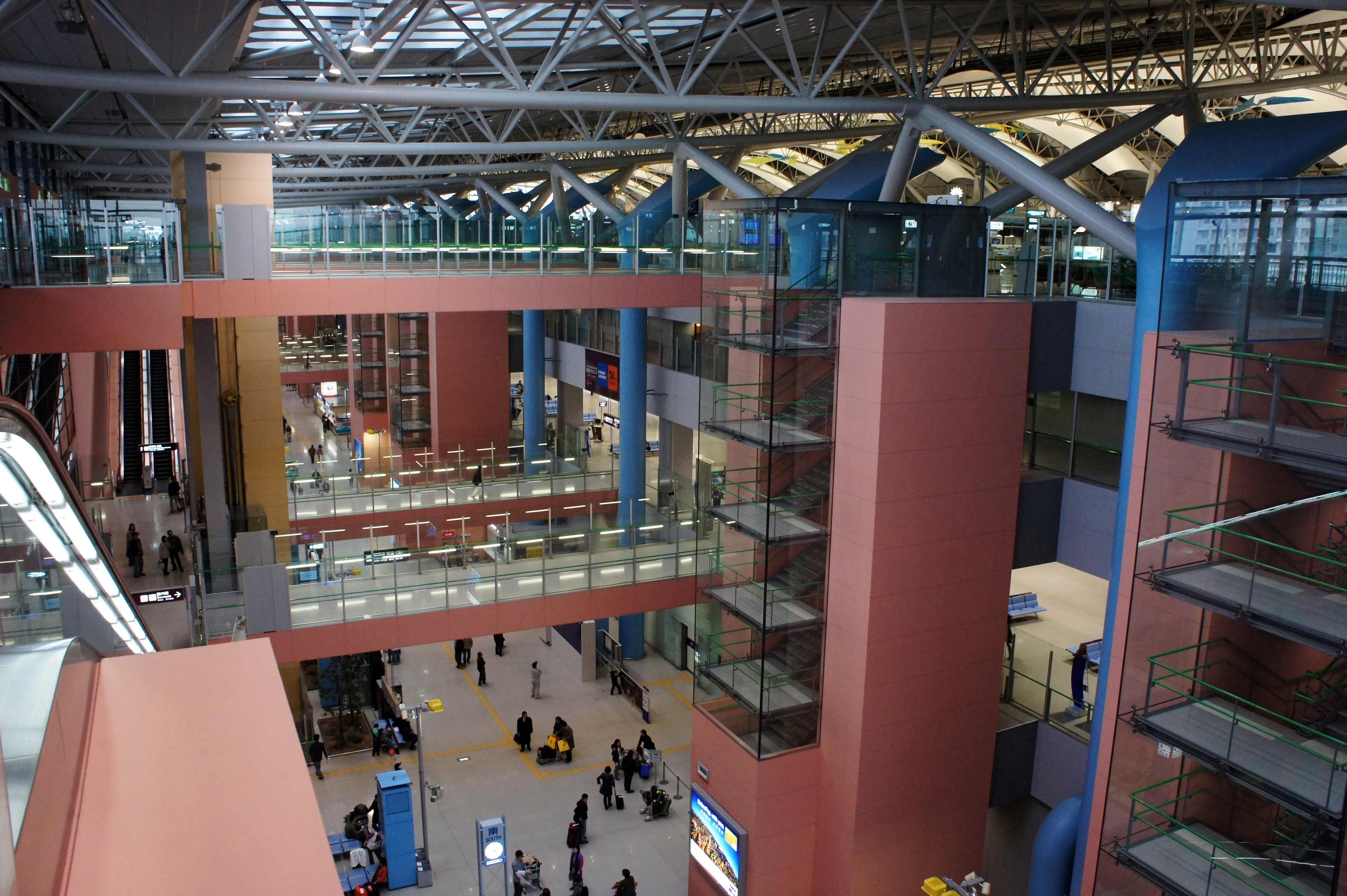 Kansai International Airport in Izumisano, Osaka prefecture, Japan